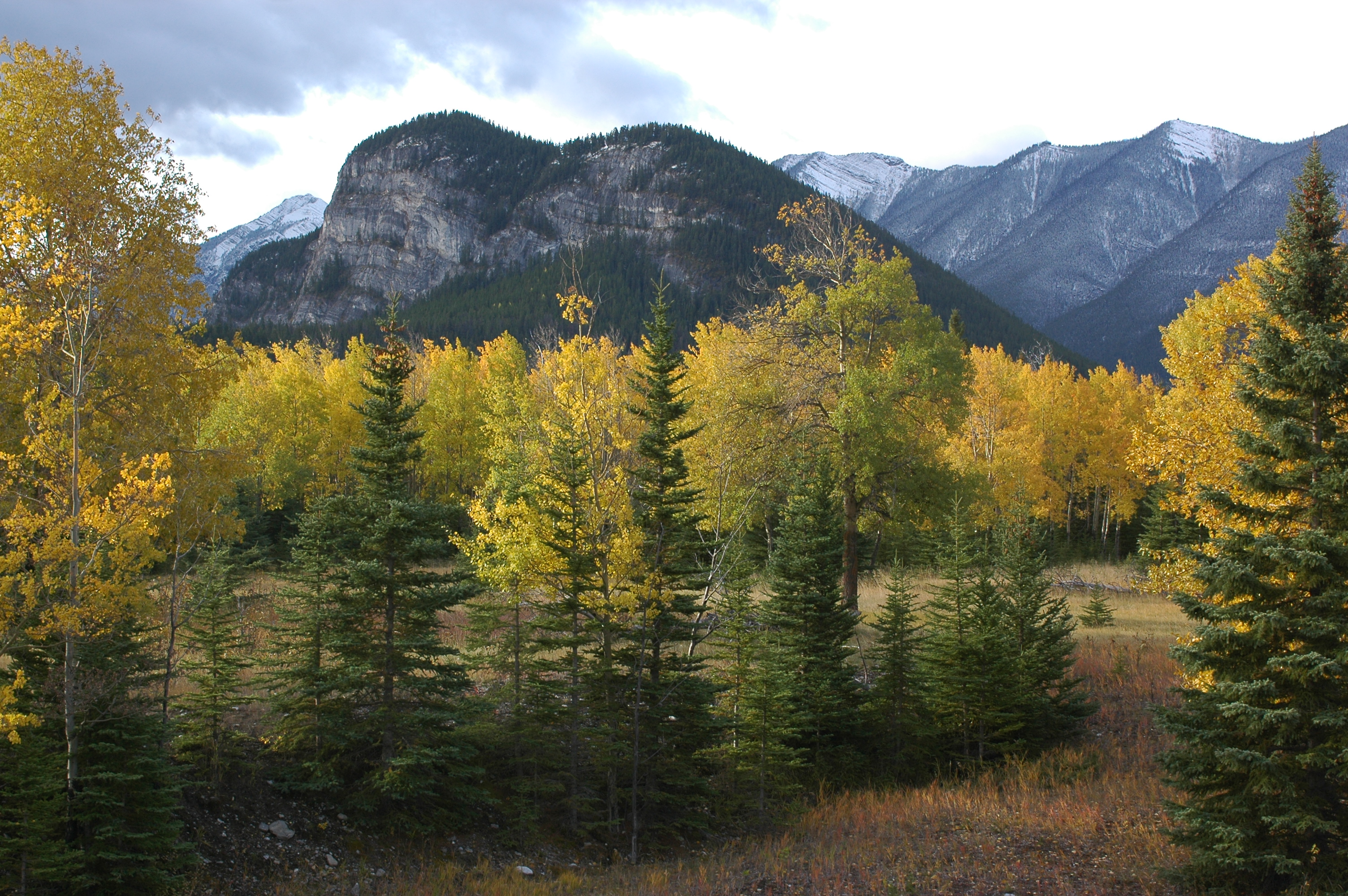 Tunnel Mountain from the north with Sulphur Mountain in the background. Trees are Picea engelmannii and Populus tremuloides.